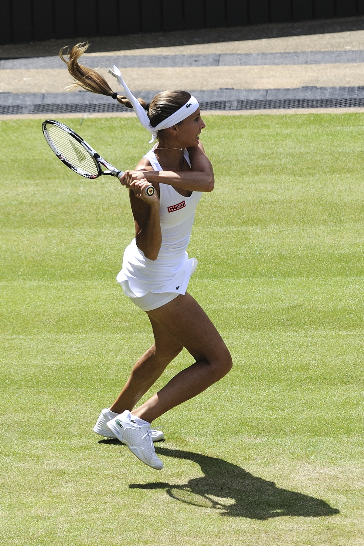 Gisela Dulko against Maria Sharapova in the 2009 Wimbledon Championships second round